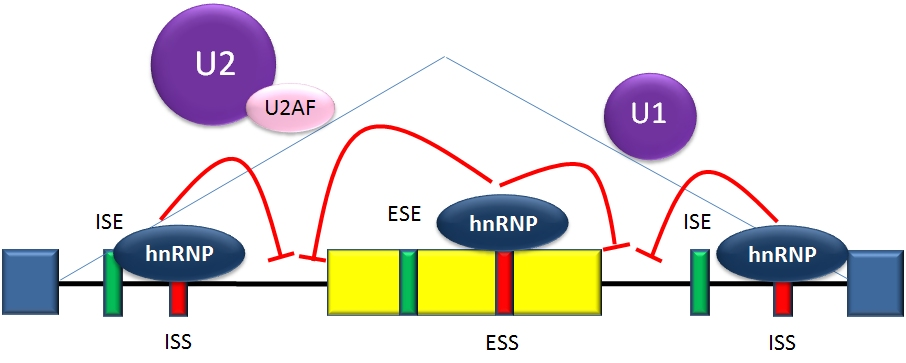 Generalized model of splicing repression. Splicing repressor proteins (mostly hnRNPs) bind to splicing silencers in exons (ESS) and introns (ISS). They inhibit the binding of U1 snRNP to the donor site, and of U2AFs and the U2 snRNP to the acceptor site and branch point. This results in skipping of the exon (yellow). Information from: Black, Douglas L. (2003). "Mechanisms of alternative pre-messenger RNA splicing". Annual Reviews of Biochemistry 72 (1): 291-336. Wang, Z; Burge, Cb (May 2008). "Splicing regulation: from a parts list of regulatory elements to an integrated splicing code" (Free full text). RNA (New York, N.Y.) 14 (5): 802–13. ISSN 1355-8382. PMID 18369186. PMC: 2327353.